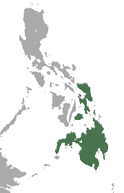 Lesser Musky Fruit Bat (Ptenochirus minor) range